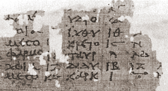 Fragment of a Greek papyrus from the 2nd century C.E., showing an early version of the zero sign (lower right corner). This papyrus is housed at Lund University Library and has the inventory ID: P. Lund. Inv. 35.